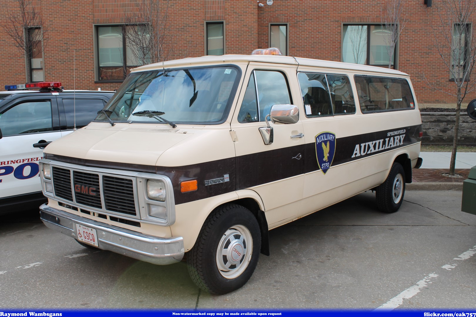 Springfield Auxiliary PD